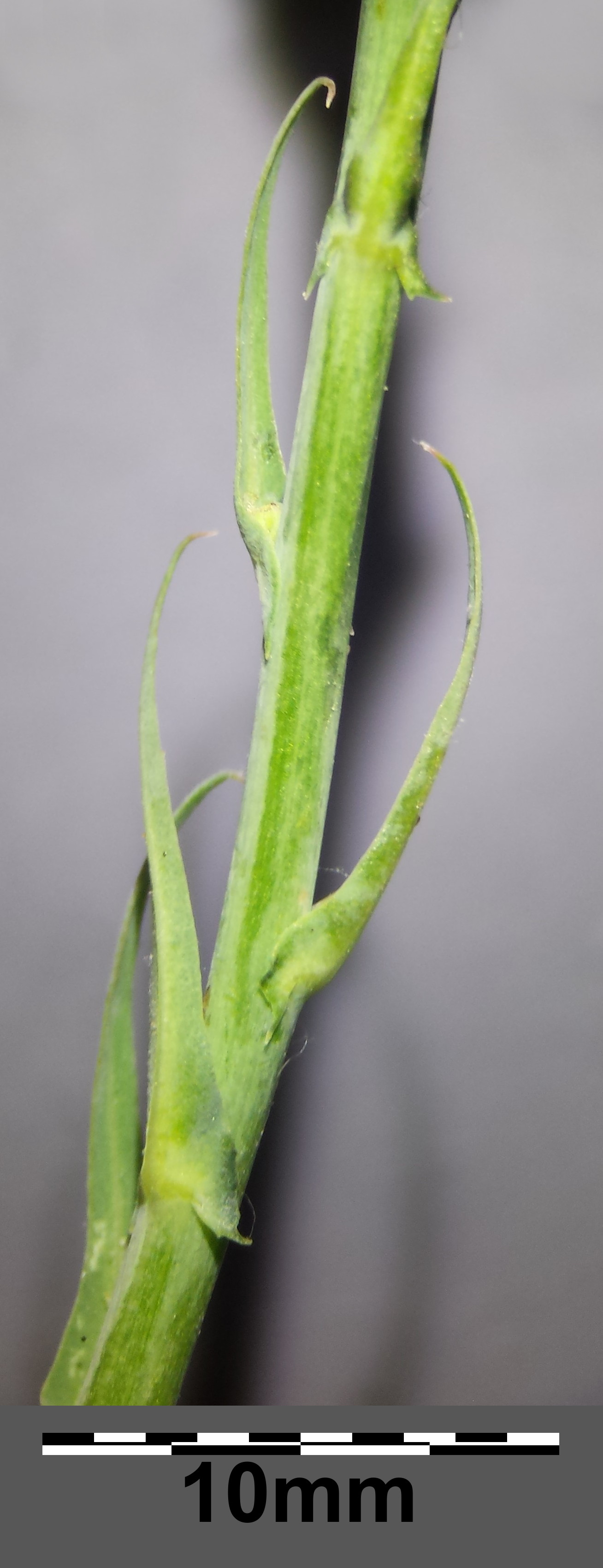 Upper part of stem with leaves Taxonym: Lactuca quercina ss Fischer et al. EfÖLS 2008 ISBN 978-3-85474-187-9 Location: Donauauen near Mühlleiten, district Gänserndorf, Lower Austria - ca. 150 m a.s.l. Habitat: border of a wood